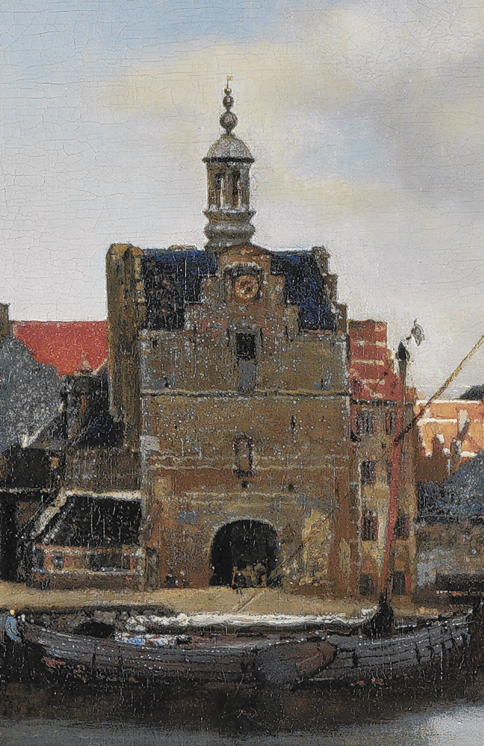 cropped from painting